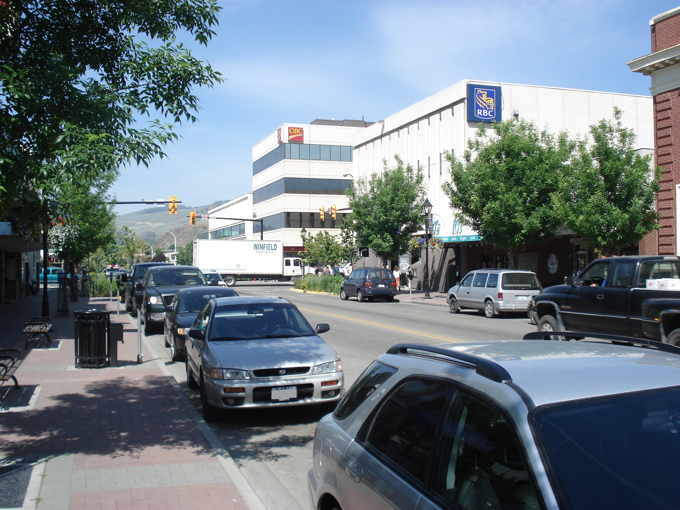 Downtown Vernon, British Columba, Canada